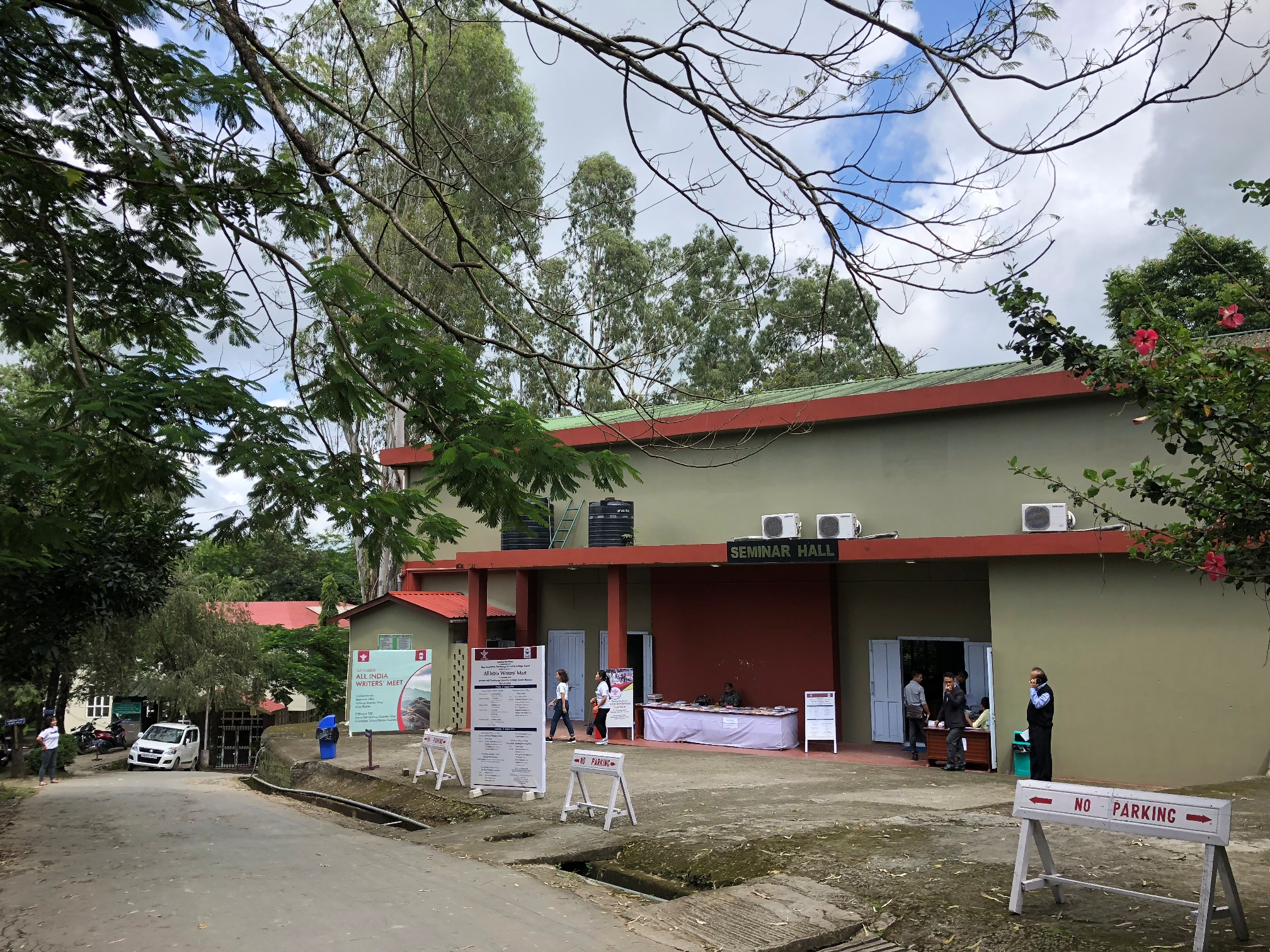 Pachhunga University College Seminar Hall.